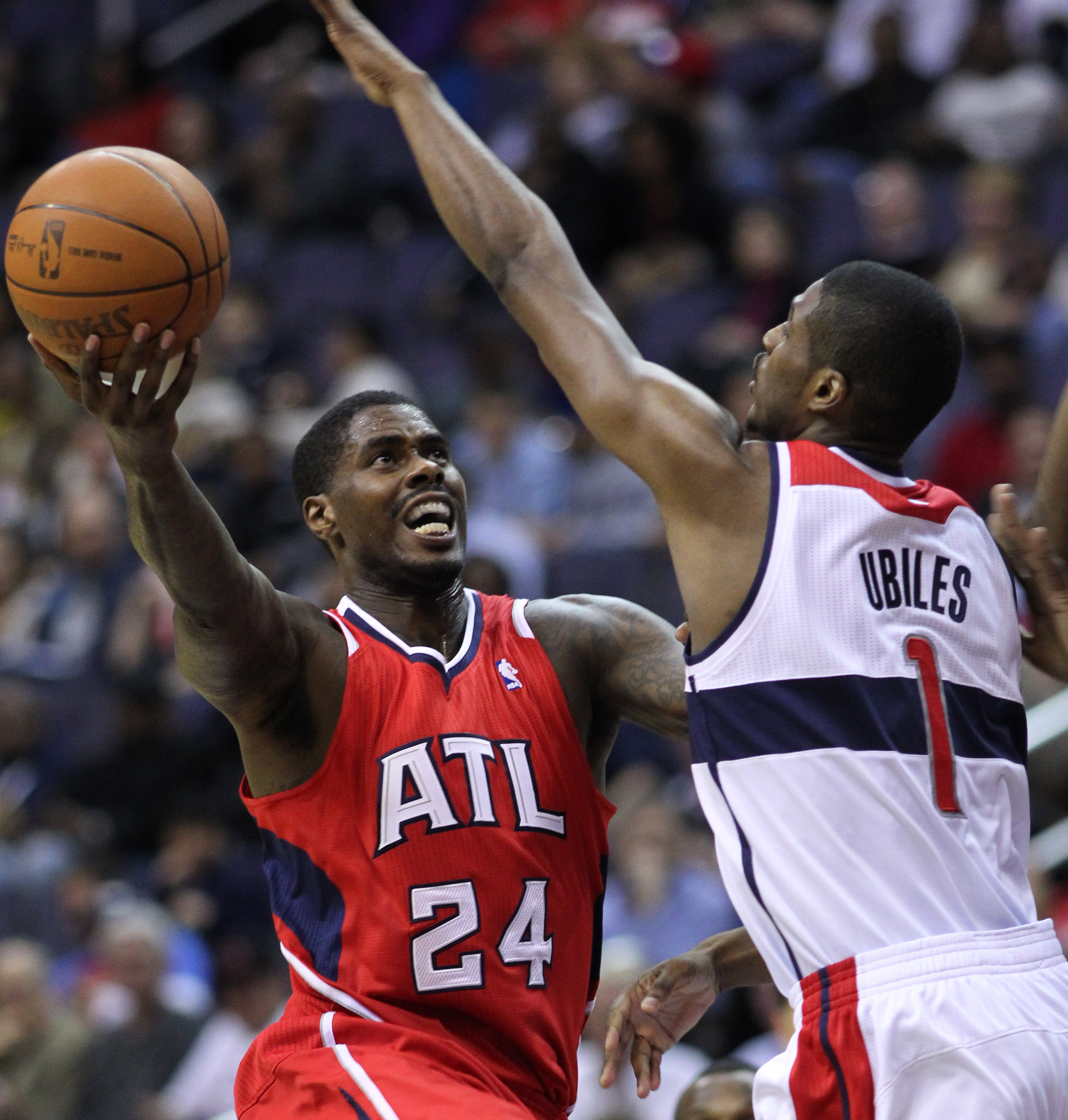 Hawks at Wizards March 24, 2012